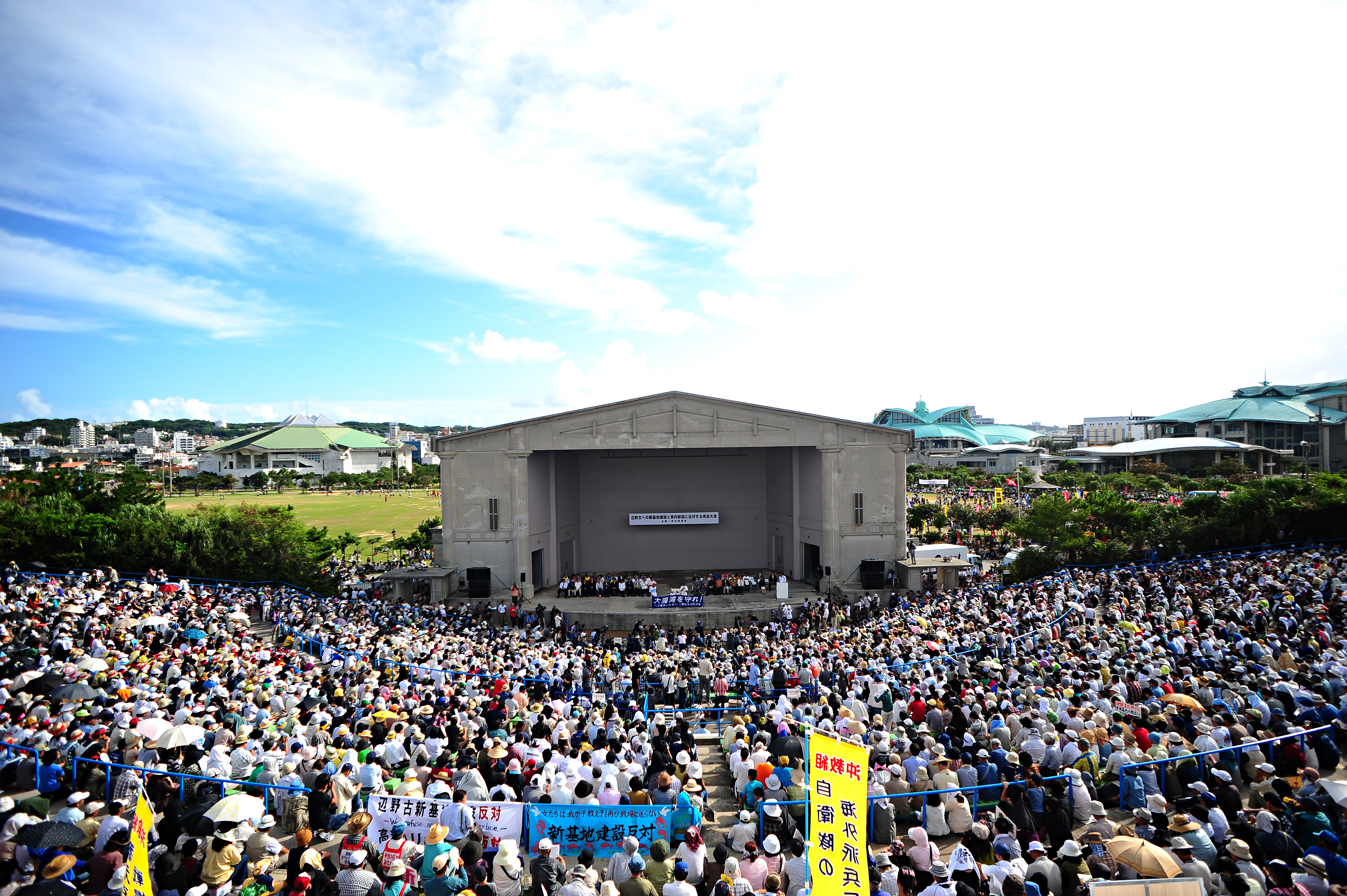 Japanese people protesting against the US Marine Corps base Futenma in Ginowan on 2009-11-08.